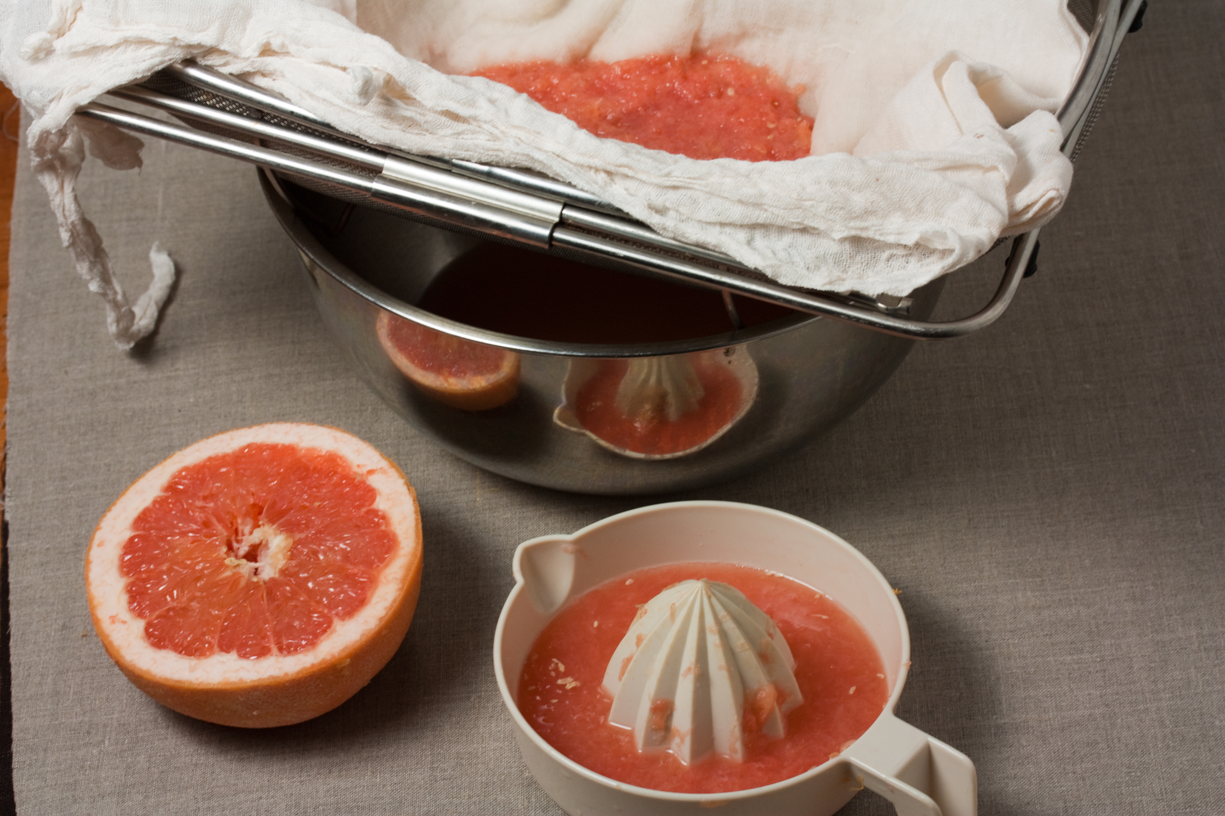 Juiced Grapefruit